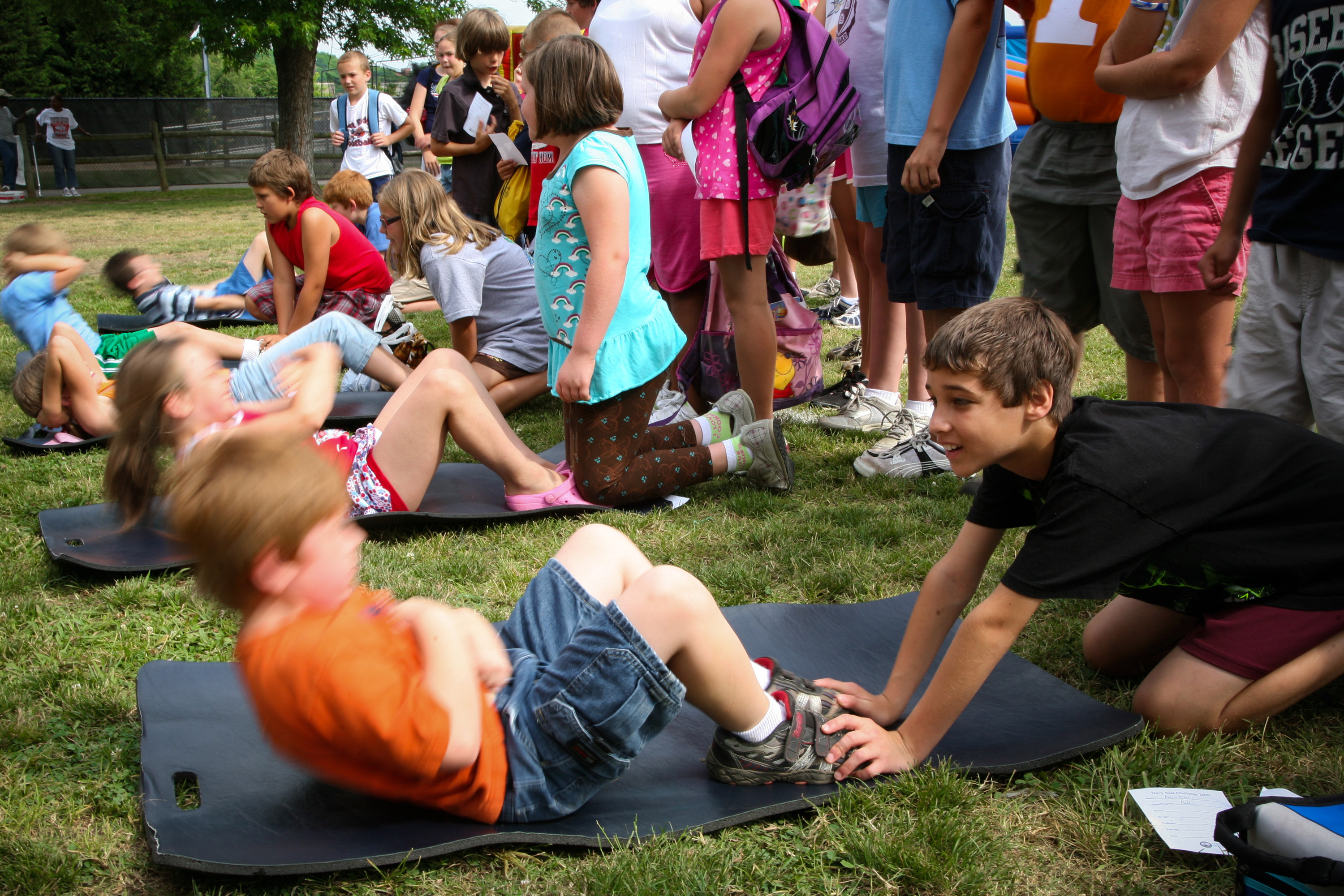 CHATTANOOGA, Tenn. (June 11, 2009) Local area children test their fitness skills during a Junior Seal Fitness Challenge at Warner Park organized by the Navy and the Chattanooga Parks and Recreation Department. The event is in conjunction with Chattanooga Navy Week, one of 21 Navy Weeks planned across America in 2009. Navy Weeks are designed to show Americans the investment they have made in their Navy and increase awareness in cities that do not have a significant Navy presence. (U.S. Navy photo by Senior Chief Mass Communication Specialist Gary Ward/Released)